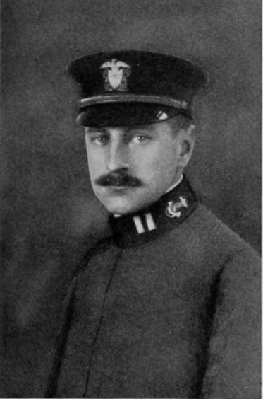 Portrait of Winthrop Williams Aldrich